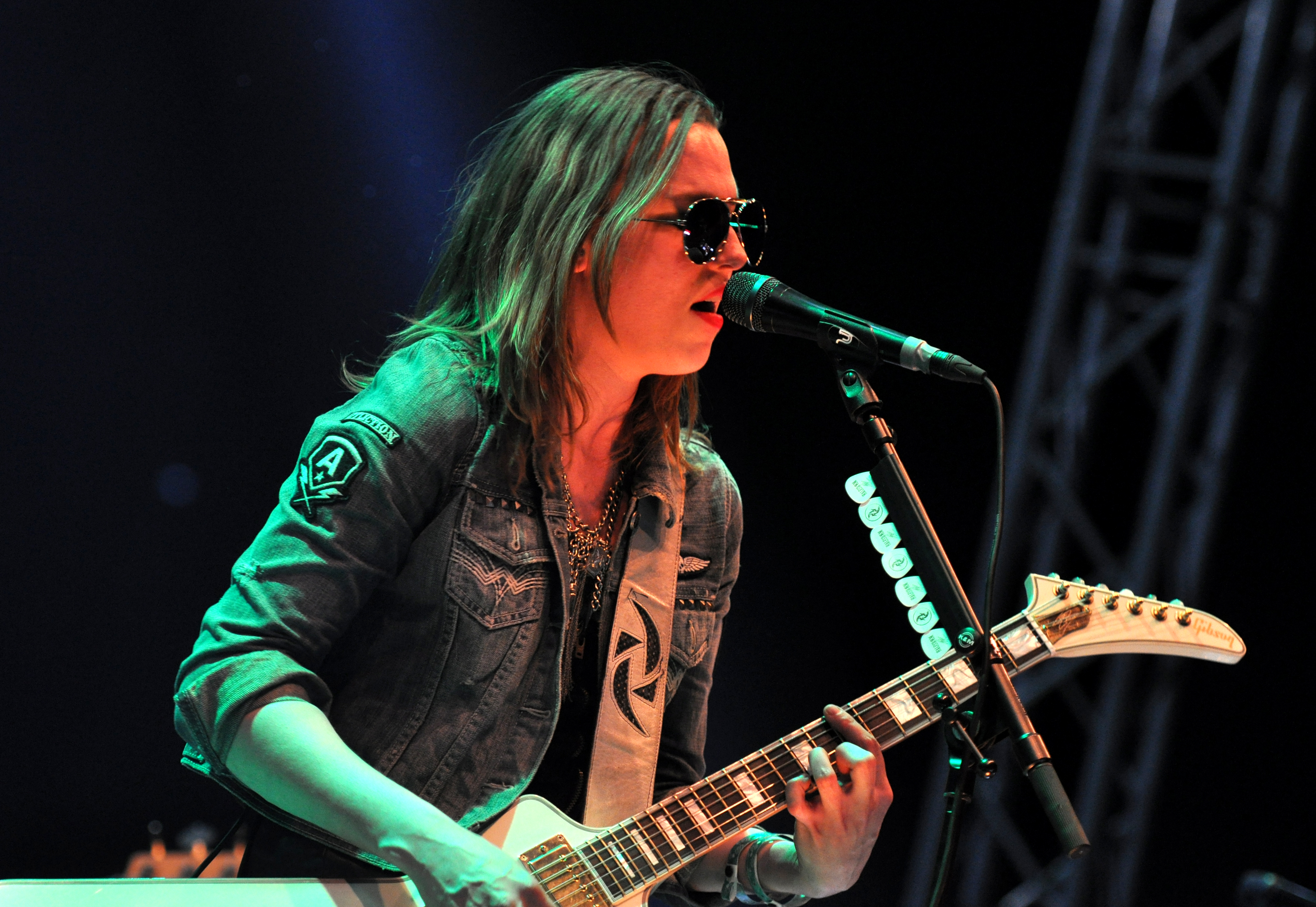 Halestorm at Paaspop 2014